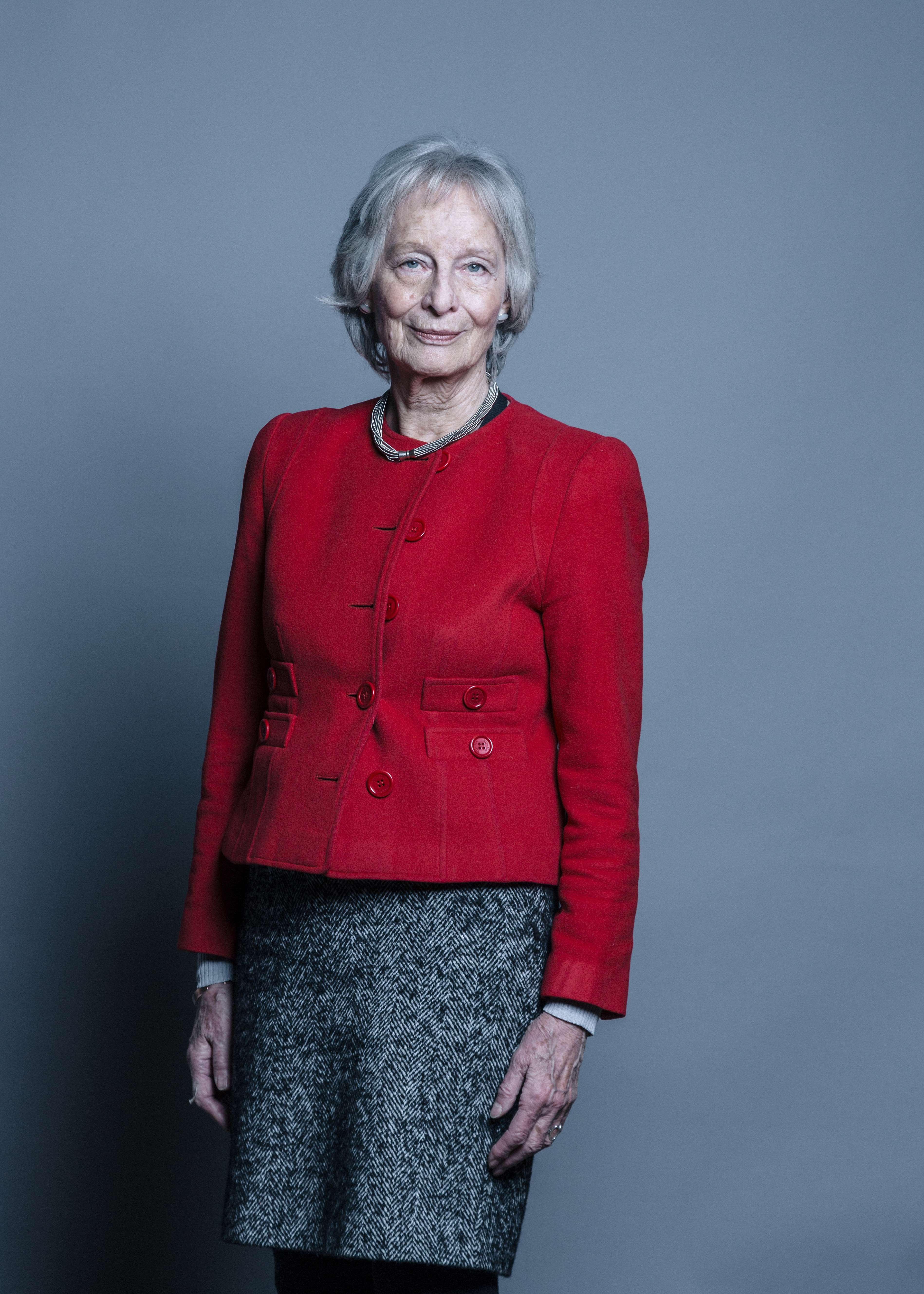 Official portrait of Baroness Whitaker